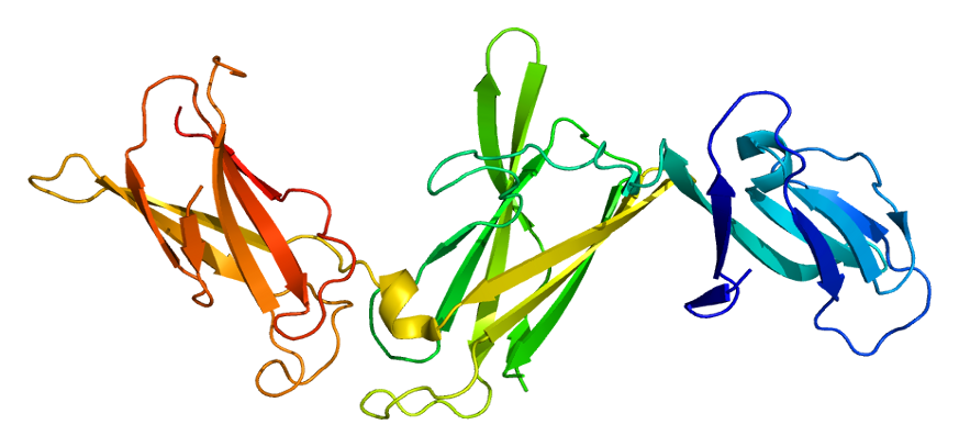 Structure of the IL12B protein. Based on PyMOL rendering of PDB 1f42.